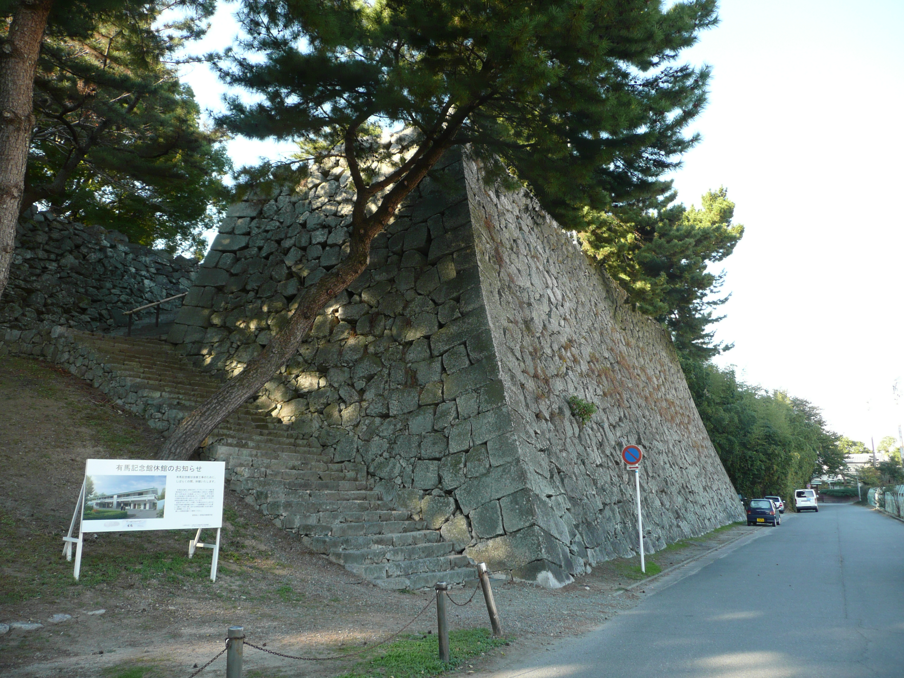 久留米城の月見櫓の石垣